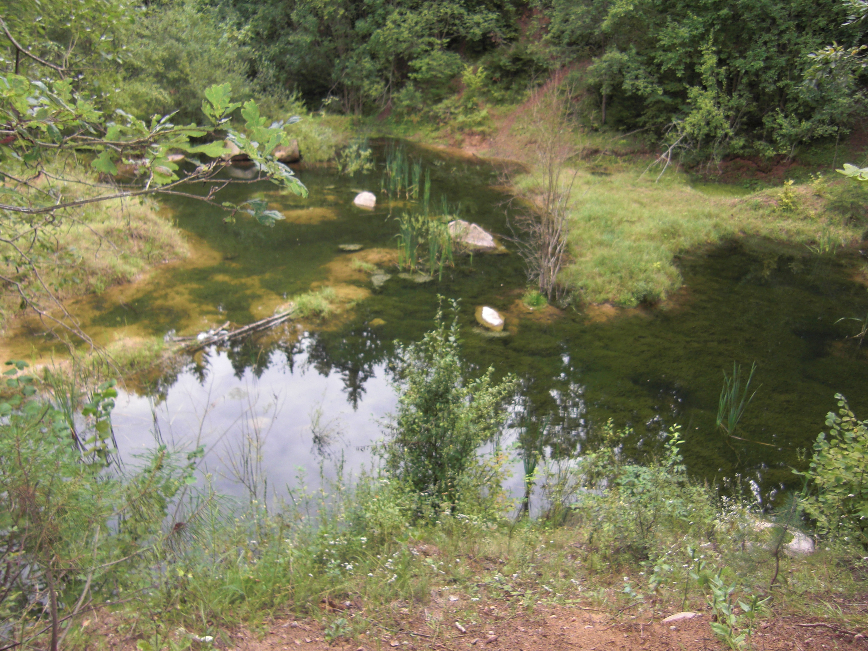 abandoned gravel pit in square 242A